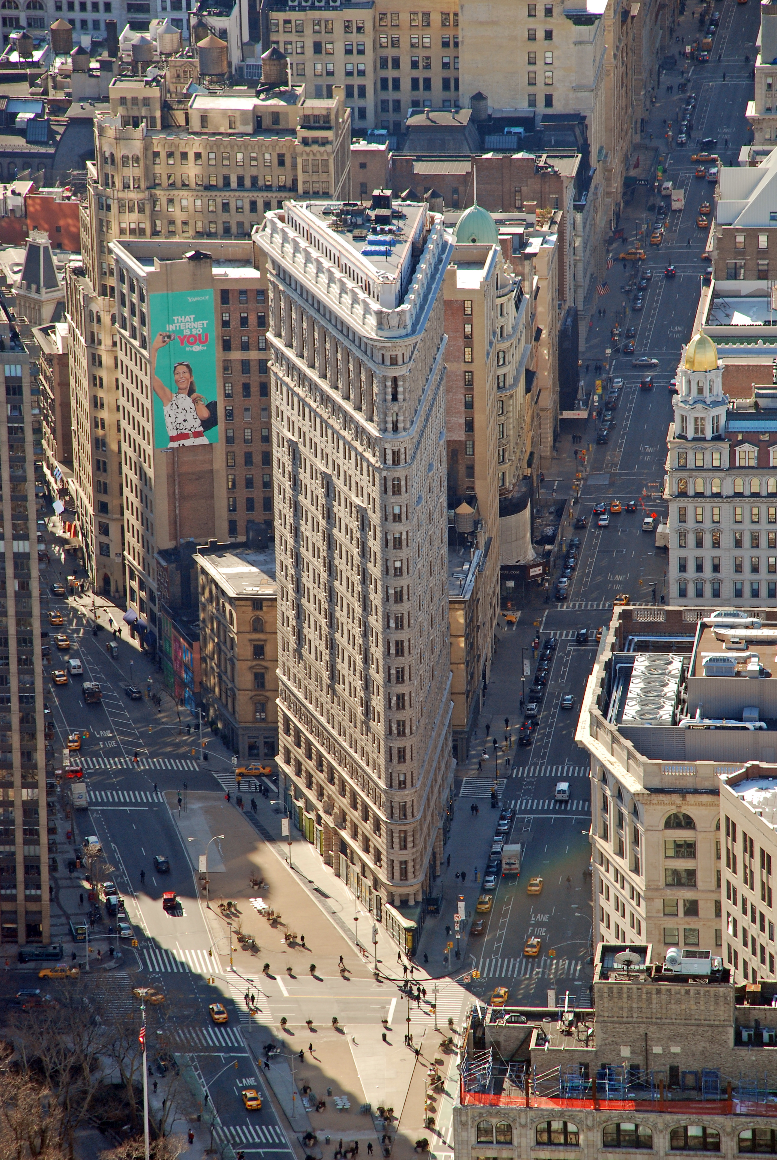 Flatiron Building (formerly the Fuller Building), Manhattan, New York.